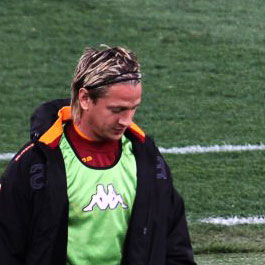 Philippe Mexès playing for A.S. Roma